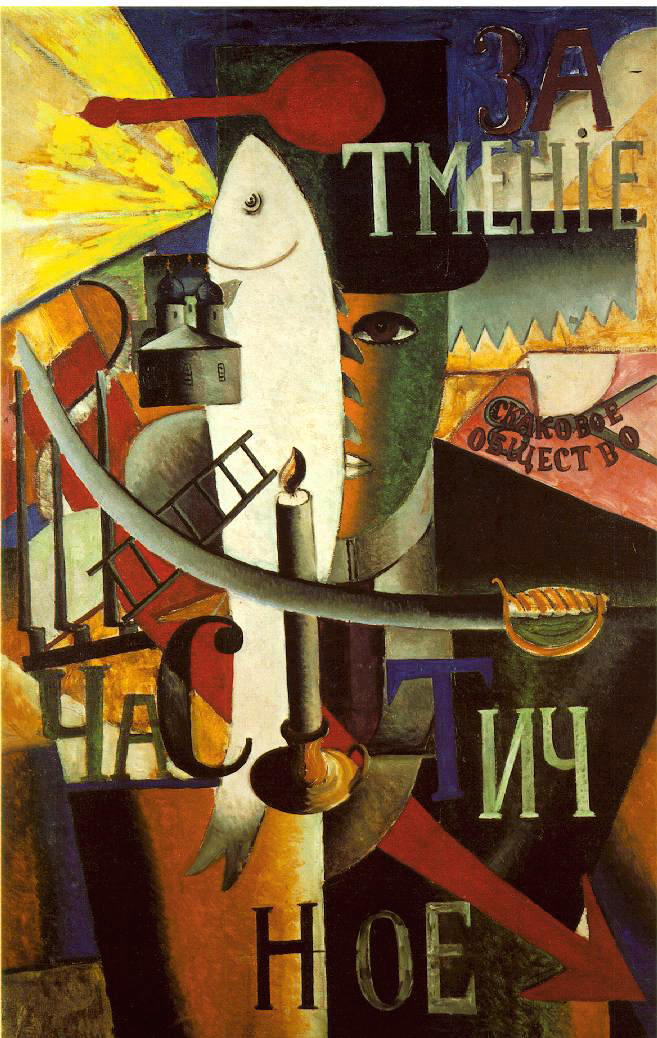 Painting